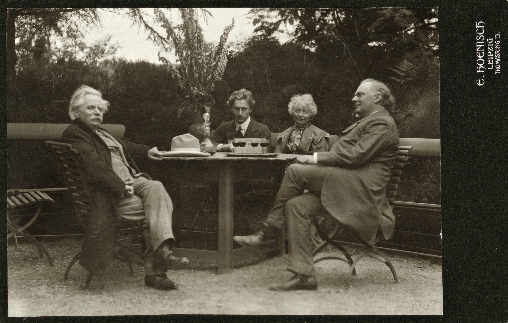 Tittel / Title: Gruppebilde av Edvard og Nina Grieg, Percy Grainger og Julius Röntgen, 1907 Motiv / Motif: Kabinettkort. Dato / Date: juli 1907 Fotograf / Photographer: E. Hoenisch (Leipzig) Sted / Place: Hordaland, Bergen, Troldhaugen Eier / Owner Institution: Nasjonalbiblioteket / National Library of Norway Lenke / Link: Bildesignatur / Image Number: blds_01925